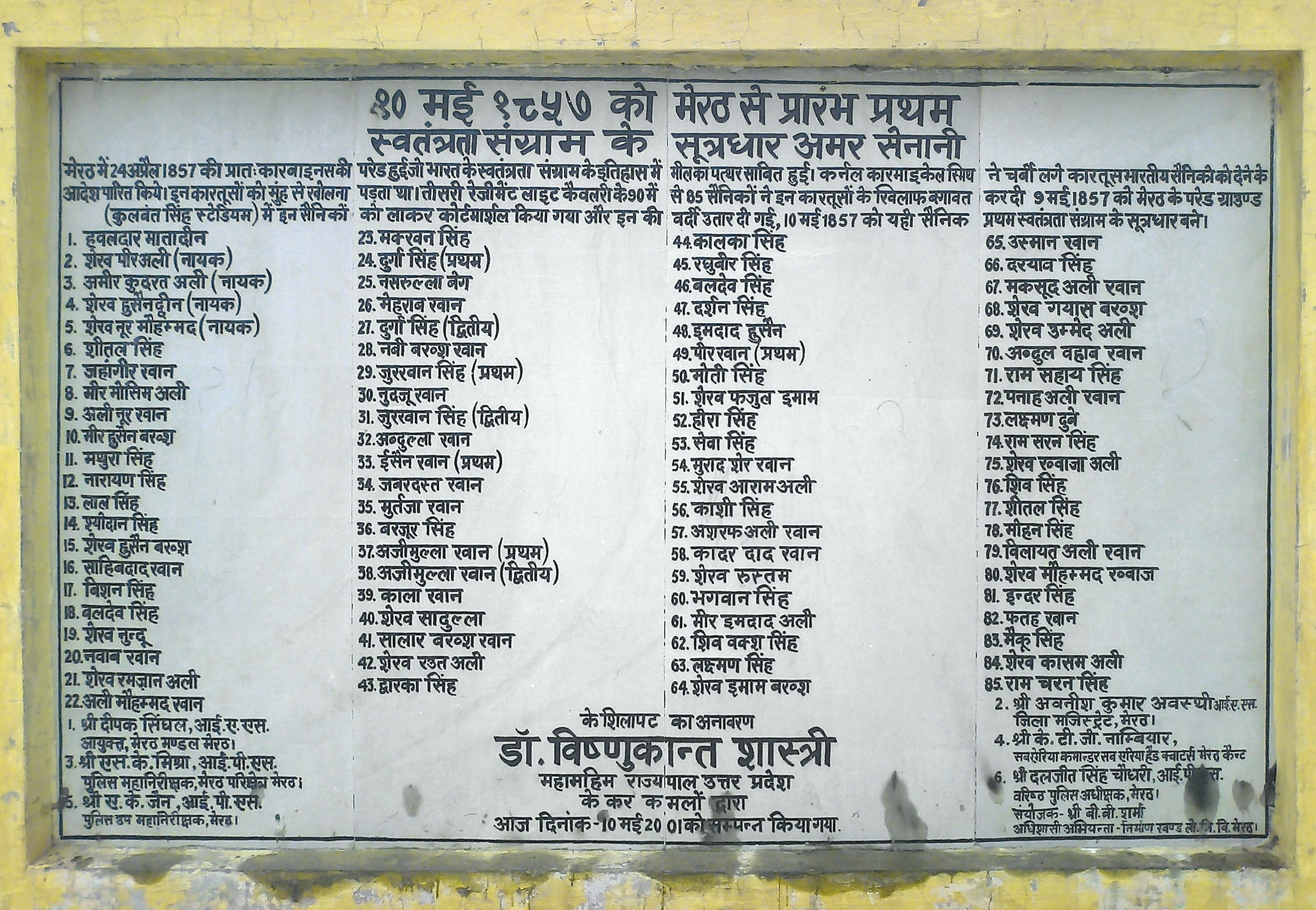 An information plaque at the Shaheed Smarak (lit. Martyr's Memorial Meerut) situated in Meerut containing the names of the 85 soldiers of the 3rd Bengal Light Cavalry who, in May 1857, refused to use the tallow-greased cartridges for the then new Pattern 1853 Enfield Rifle and were subsequently court-martialled; sparking off the 1857 First War of Indian Independence.